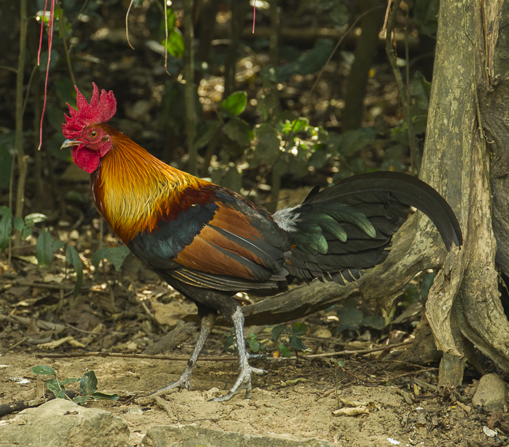 Red Junglefowl at Kaeng Krachan National Park, Thailand.